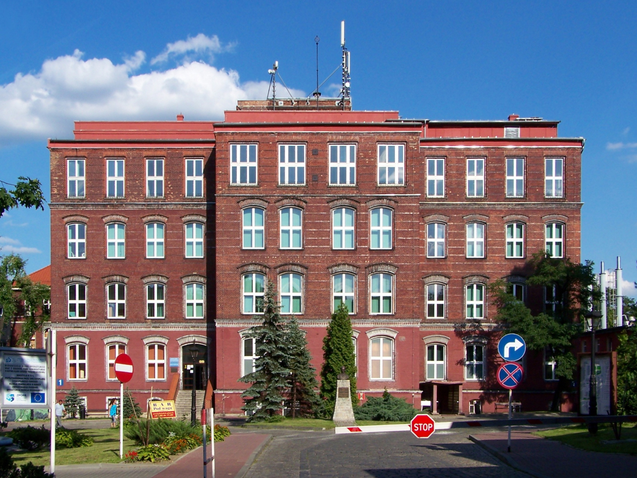 Hospital in Katowice.